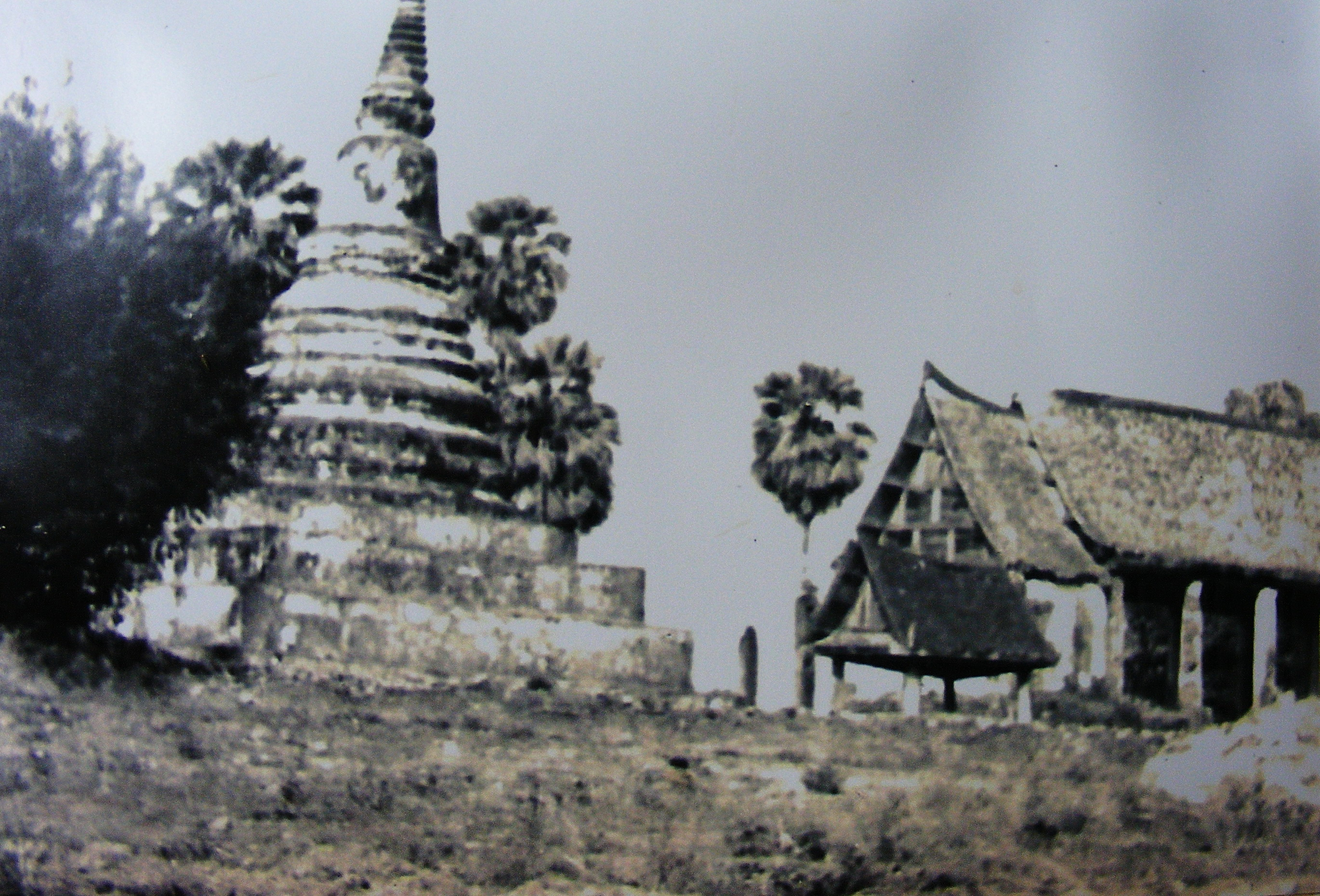 old picture of Wat Phra Fang temple Location: Wat Phra Fang (Wat Phrafangsawangkabureemuneenat) Ban Phra Fang, Pha Juk subdistrict, Mueang Uttaradit, Uttaradit Province, Thailand.